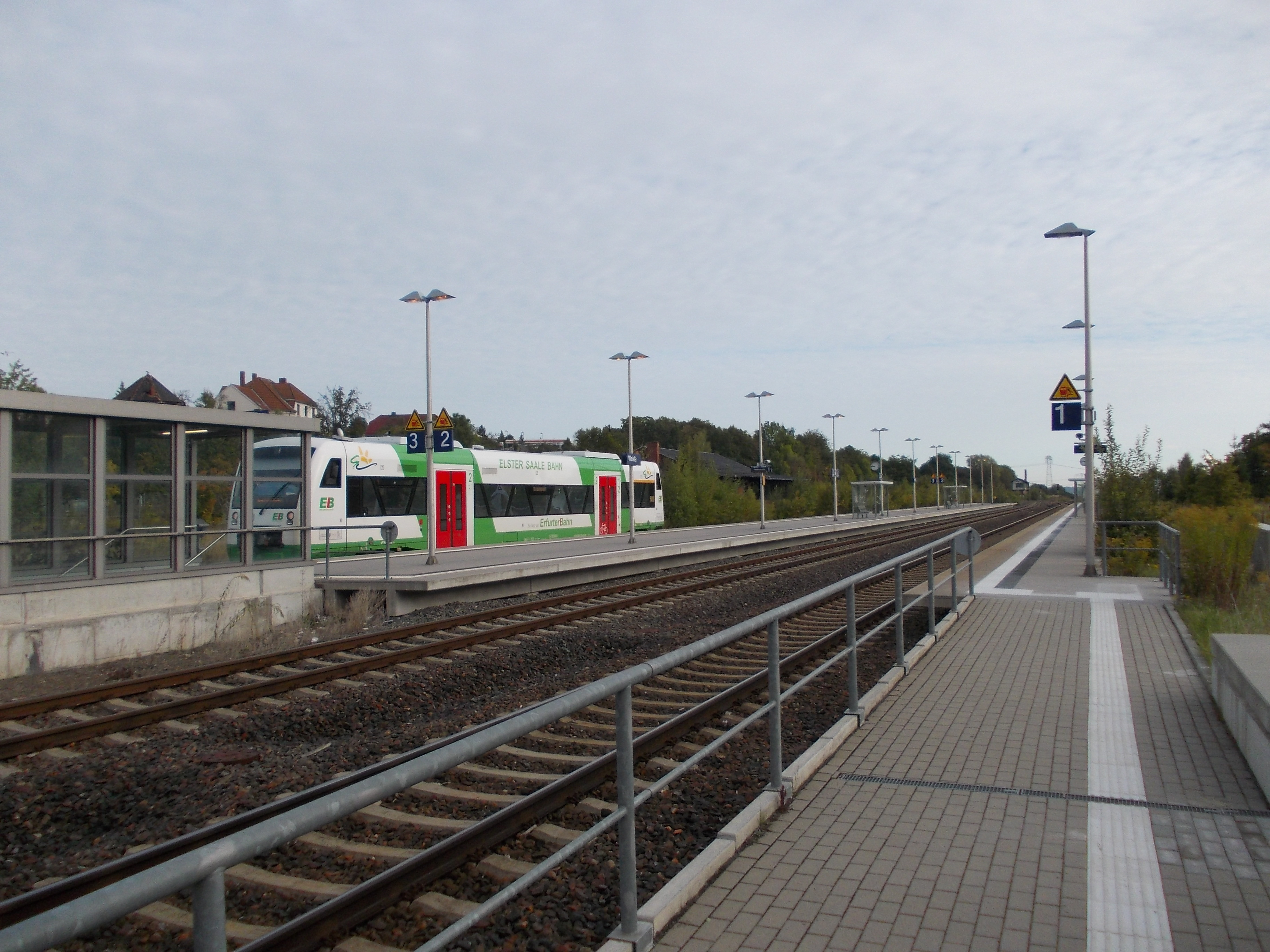 Weida train station (Greiz district, Thuringia) with train of the Elster-Saale-Bahn, a brand of Erfurter Bahn